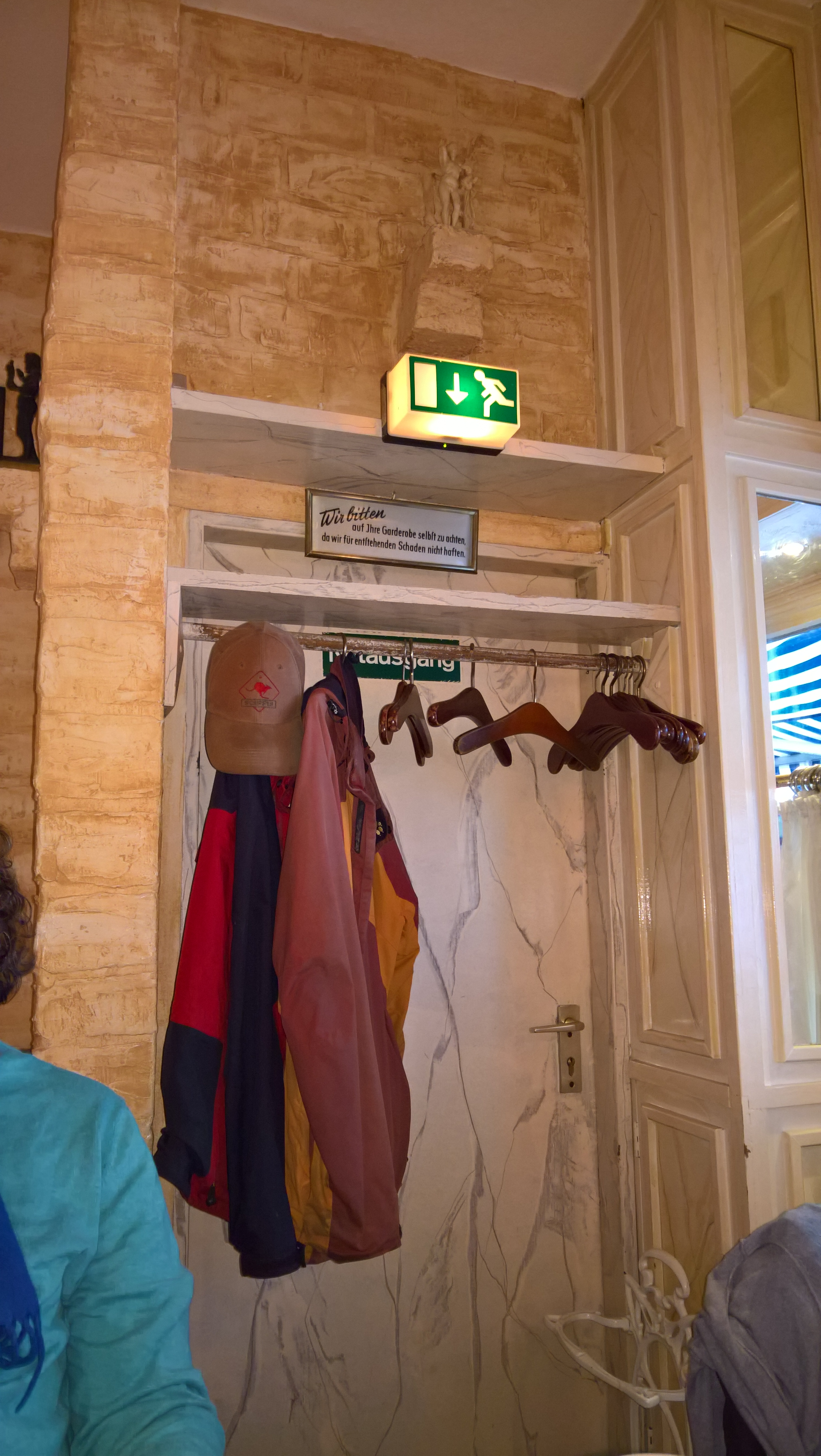 Emergency exit in a restaurant of the old town of Lübeck